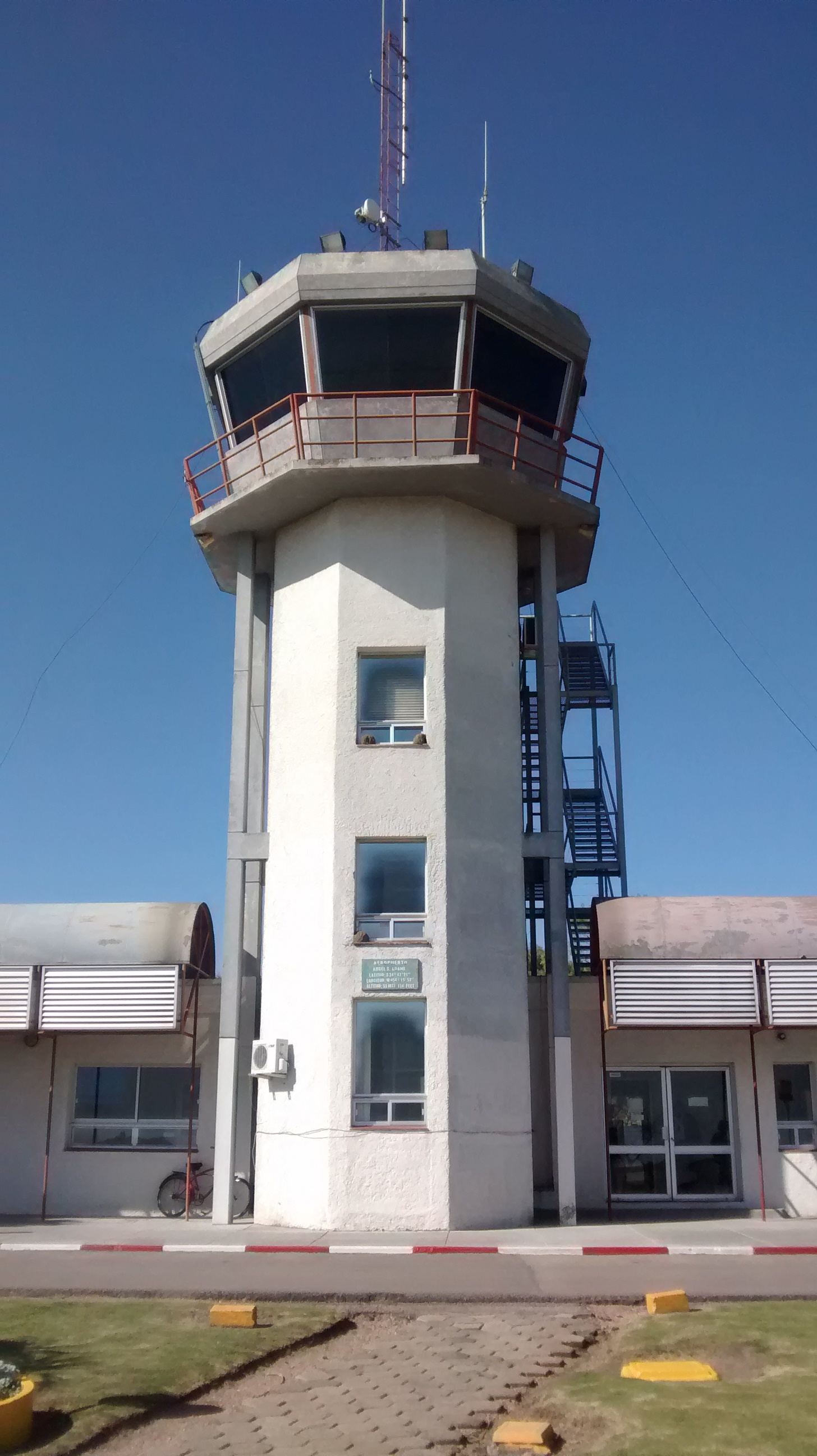 Tower of Ángel Adami airfield, Montevideo, Uruguay